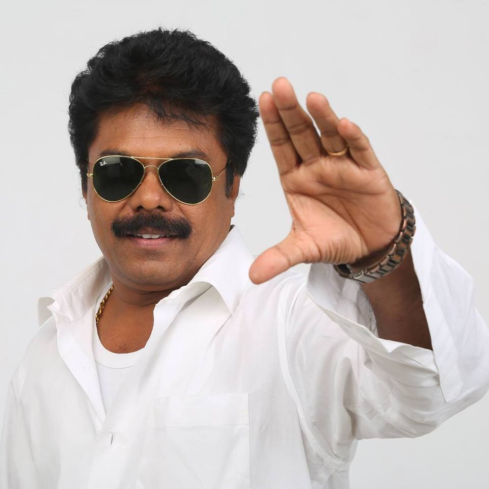 Jaguar in India Movie